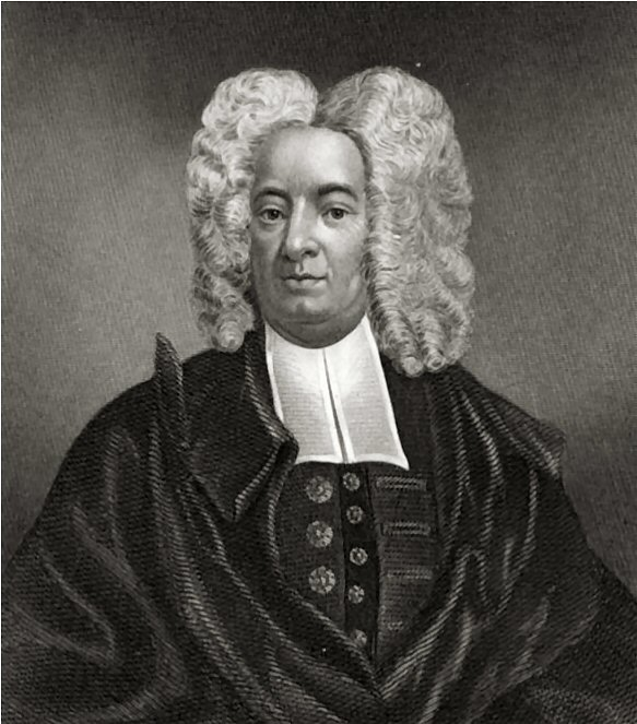 mezzotint portrait of Cotton Mather (Feb. 12, 1663 - Feb. 13, 1728), American Puritan clergyman.